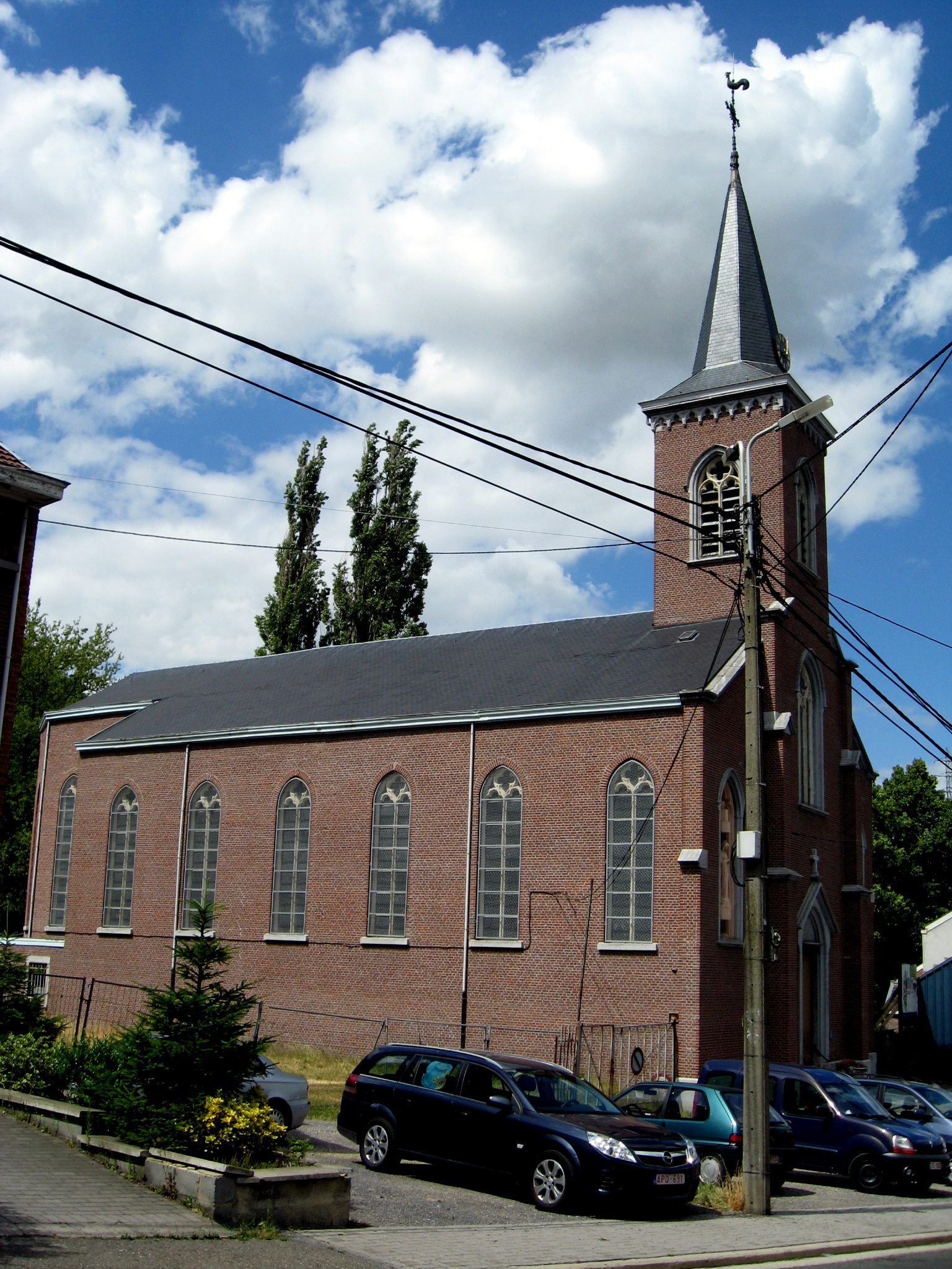 Church of the Immaculate Conception of Our Lady in La Préalle, Herstal, Liège, Belgium